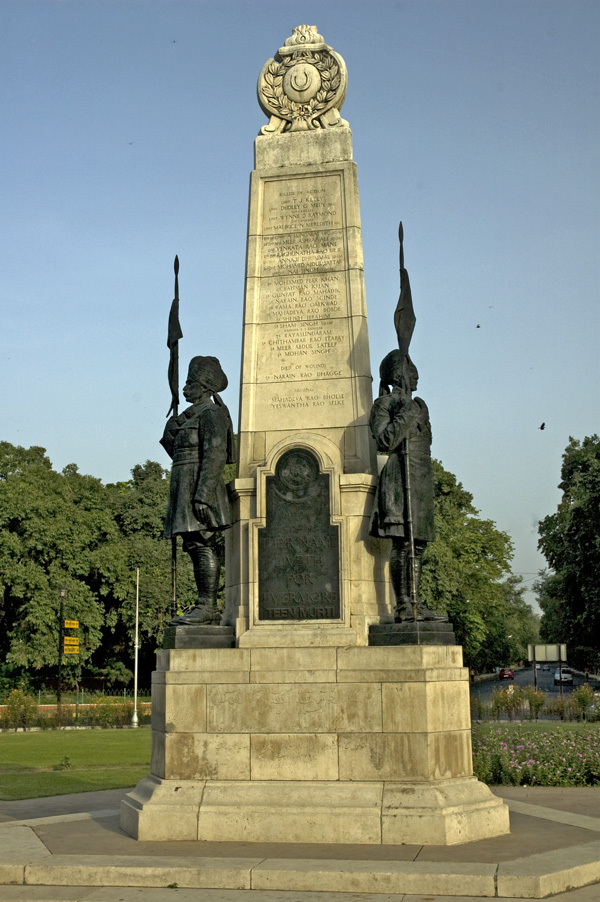 Teen Murthi meaning “three statues”, is a three sided stone obelisk with three bronze sculptures created by Leonard Jennings to commemorate those killed from the Indian Army during World War I in battles in Sinai, Palestine and Syria. The three statues represent soldiers from the three Indian States - Hyderabad, Mysore and Jodhpur, together with detachments from Bhavnagar, Kashmir and Kathiawar. The statutes were collectively named Teen Murti and the base carries the names of martyred officers. The statues stood in a roundabout in front of Flagstaff House, the Commander-in-Chief's residence. After Independence (1947) the house was taken over as the residence of Pandit Jawahar Lal Nehru, the first Prime Minister of India and rechristened Teen Murthi Bhawan. On Nehru's death, the house was converted into a national memorial comprising a library and a museum. The Teen Murthi Bhawan is today more famous than this memorial from which it originally got its name.